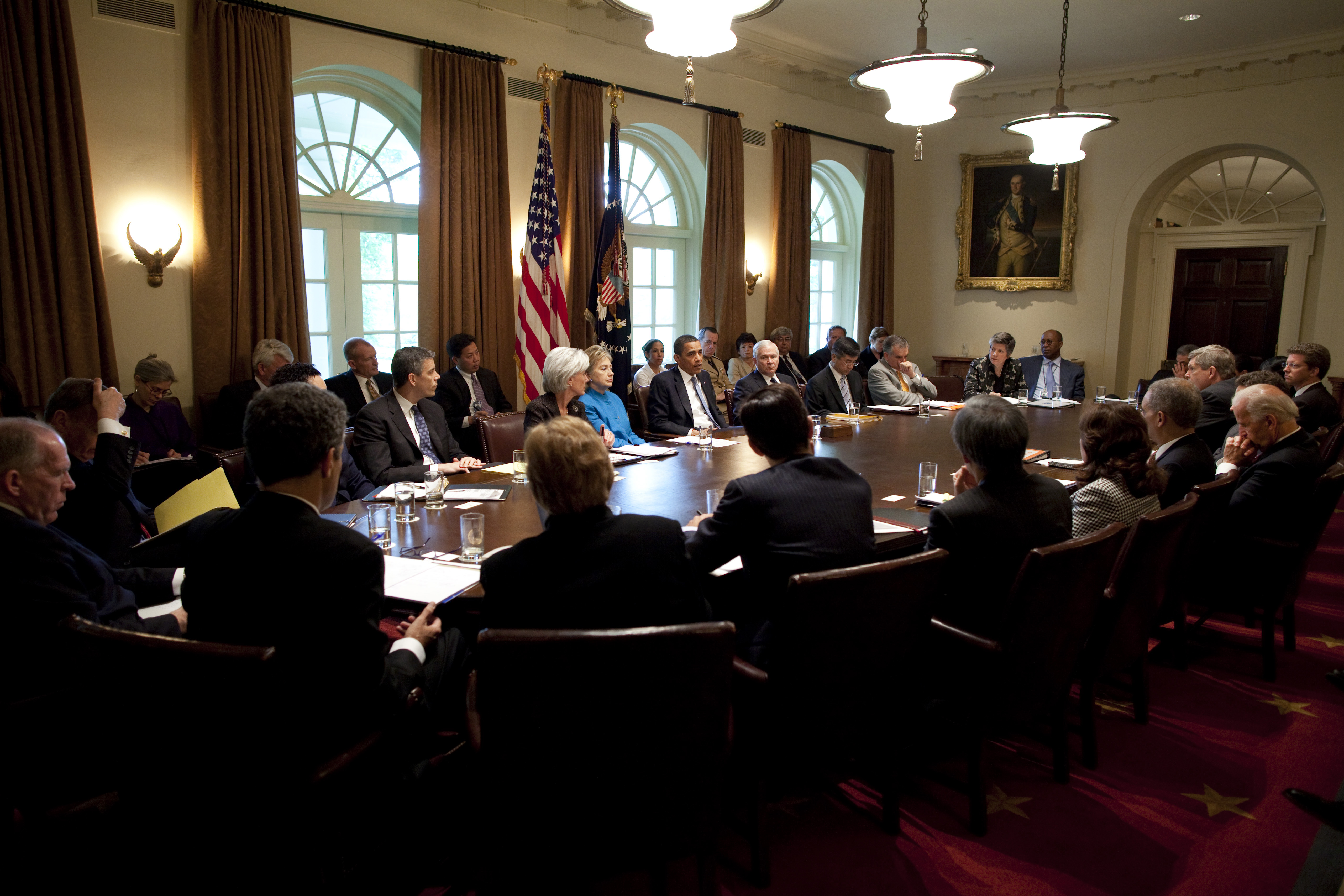 President Obama at Homeland Security Council meeting in Cabinet Room to discuss the H1N1 flu May 1, 2009. Starting from left to right and around the table, four people to the left of Obama: Administrator of the EPA Lisa Jackson, Secretary of Education Arne Duncan, Secretary of Health and Human Services Kathleen Sebelius, Secretary of State Hillary Clinton, President of the United States Barack Obama, Secretary of Defense Robert Gates, Secretary of Commerce Gary Locke, Secretary of Transportation Ray Lahood, Secretary of Homeland Security Janet Napolitano, United States Trade Representative Ron Kirk, Chief of Staff Rahm Emanuel (touching face), United States Mission to the United Nations Susan Rice, Secretary of Veterans Affairs Eric Shinseki, Secretary of Housing and Urban Development Shaun Donovan, Secretary of Agriculture Tom Vilsack, Secretary of Treasury Tim Geithner, Vice President of the United States Joe Biden, Attorney General of the United States Eric Holder, Secretary of Labor Hilda Solis, Secretary of Energy Steven Chu, OMB Director Peter Orszag, and CEA Advisor Christina Romer.